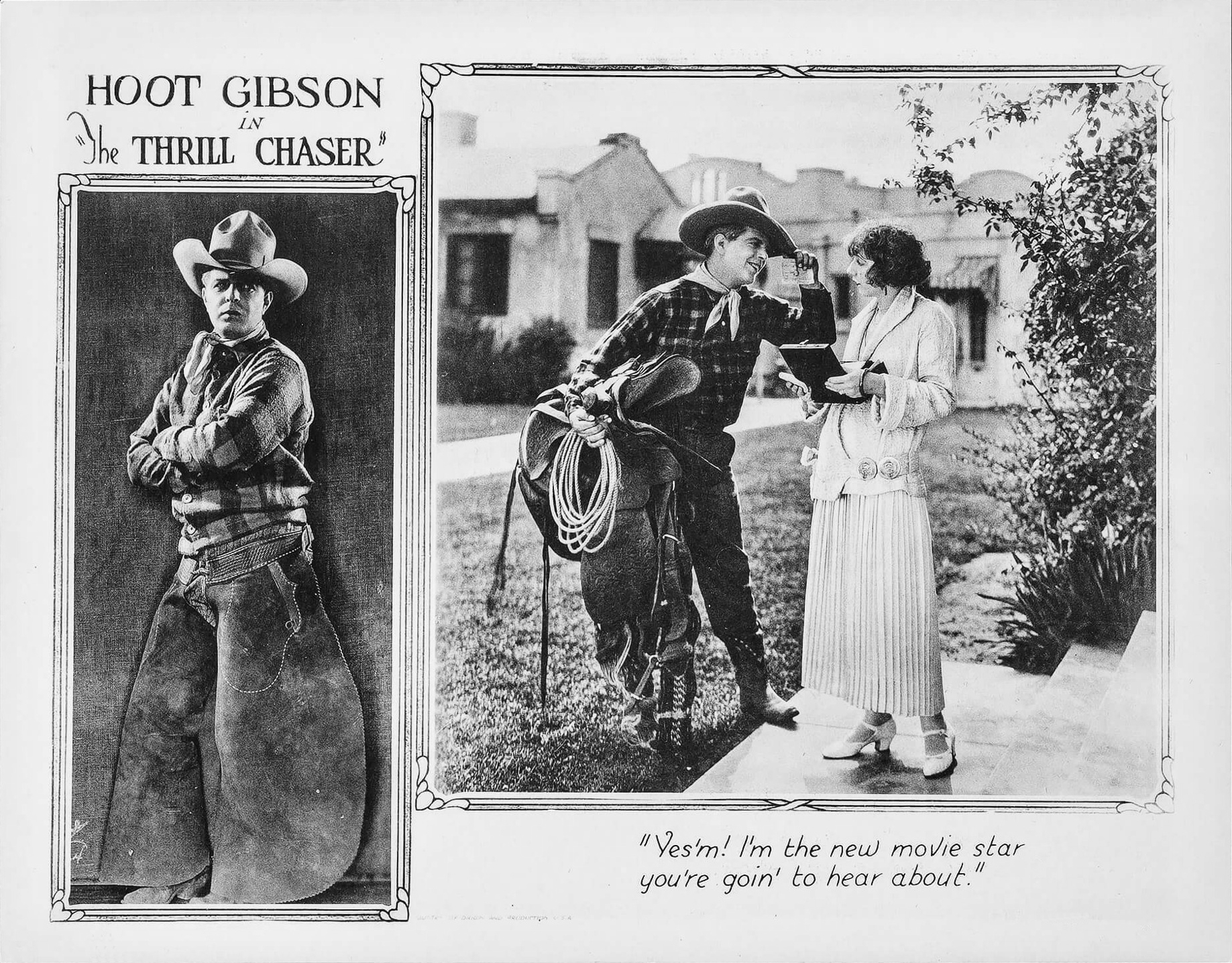 This is a lobby card for the American silent film The Thrill Chaser (1923).